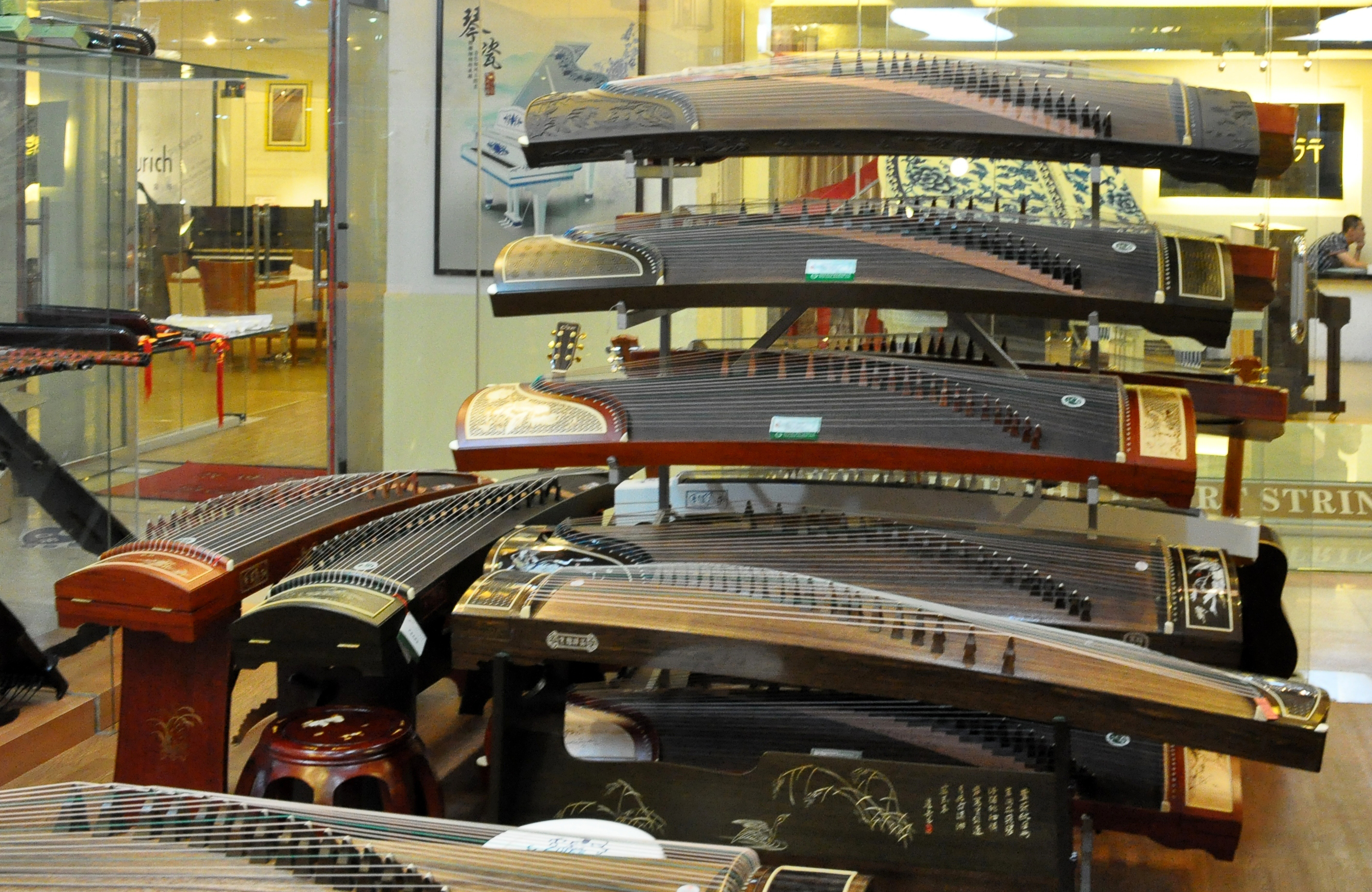 Guzheng instruments on display